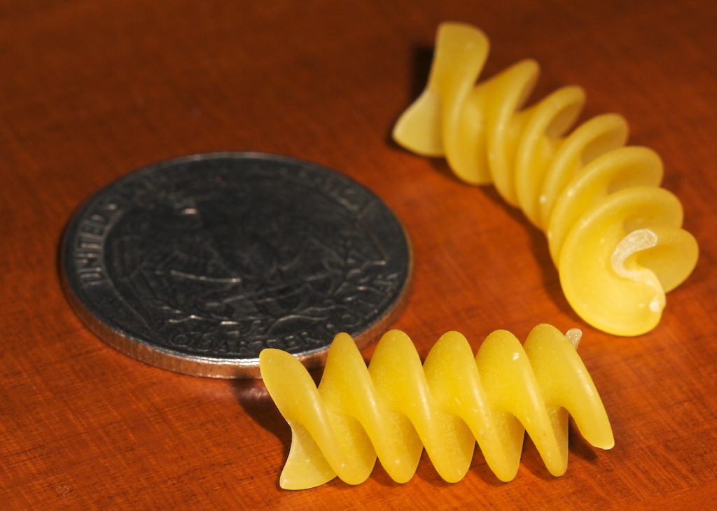 Uncooked rotini pasta, with a US quarter for scale.